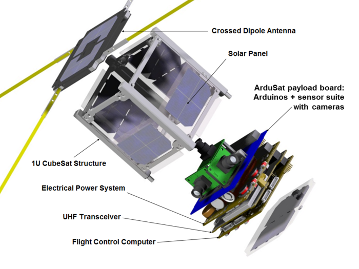 exploded view of ArduSat